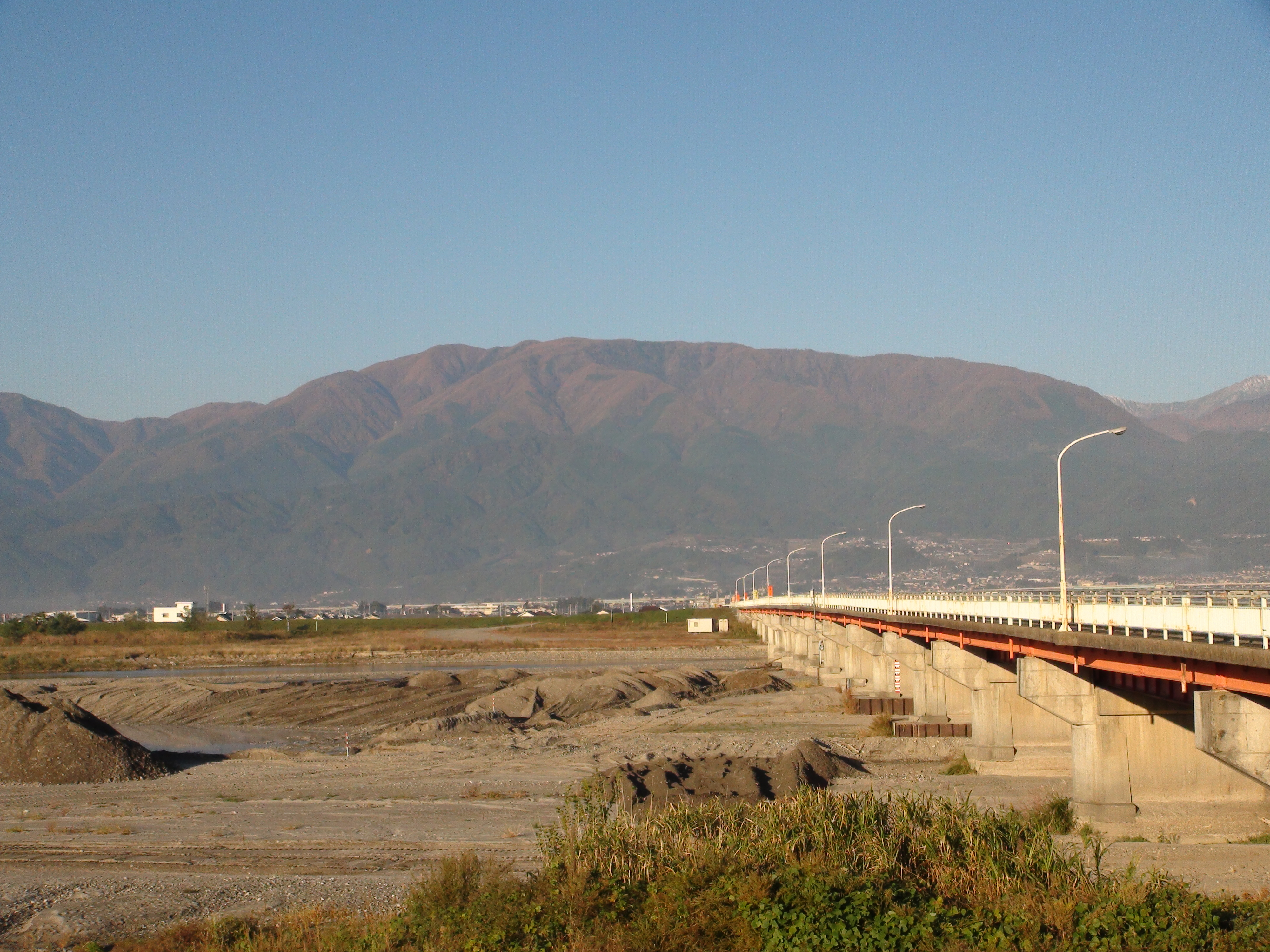 Mount Kushigata View from Asahara bridge